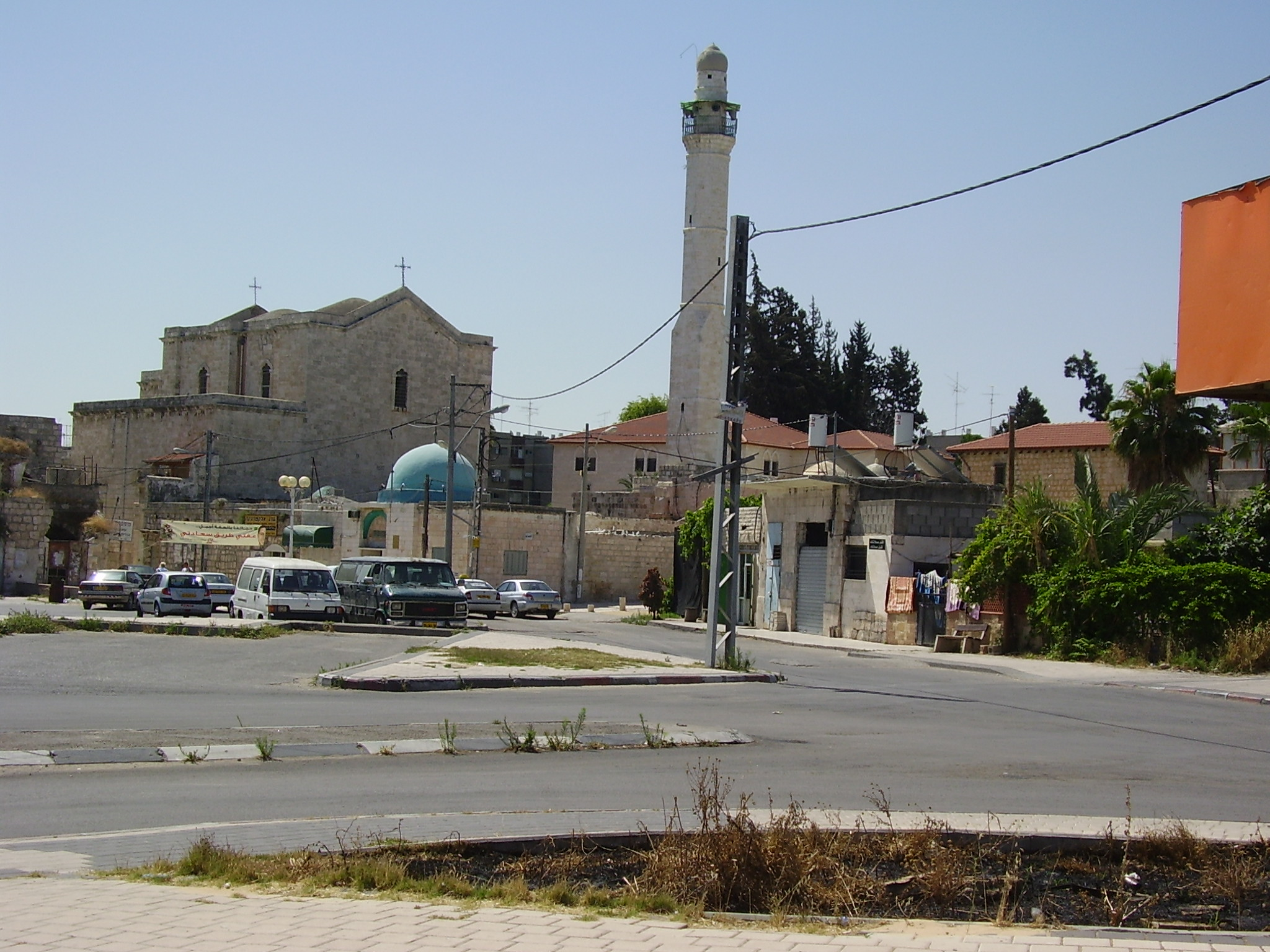 St. George Church and the great Mosque in Lod, Israel